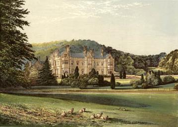 Steel line engraving (133 x 187mm) of Mamhead Park, Devon, designed 1827-1833 by the architect Anthony Salvin, from Cooke, G. A., A Topographical and Statistical Description of the County of Devon (London: Sherwood & Co., c. 1830).